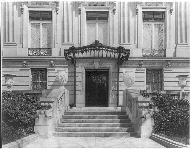 "The Townsend house, home of Sumner Welles, now the Cosmos Club, 2121 Massachusetts Ave., N.W., Washington, D.C.," black-and-white photograph by Frances Benjamin Johnston, 1915. Photograph published before 1923, and Frances Benjamin Johnston donated her archives to the Library of Congress in perpetuity, so there are no restrictions on publication. Image courtesy of the Prints & Photographs Division, Library of Congress, Washington, D.C.